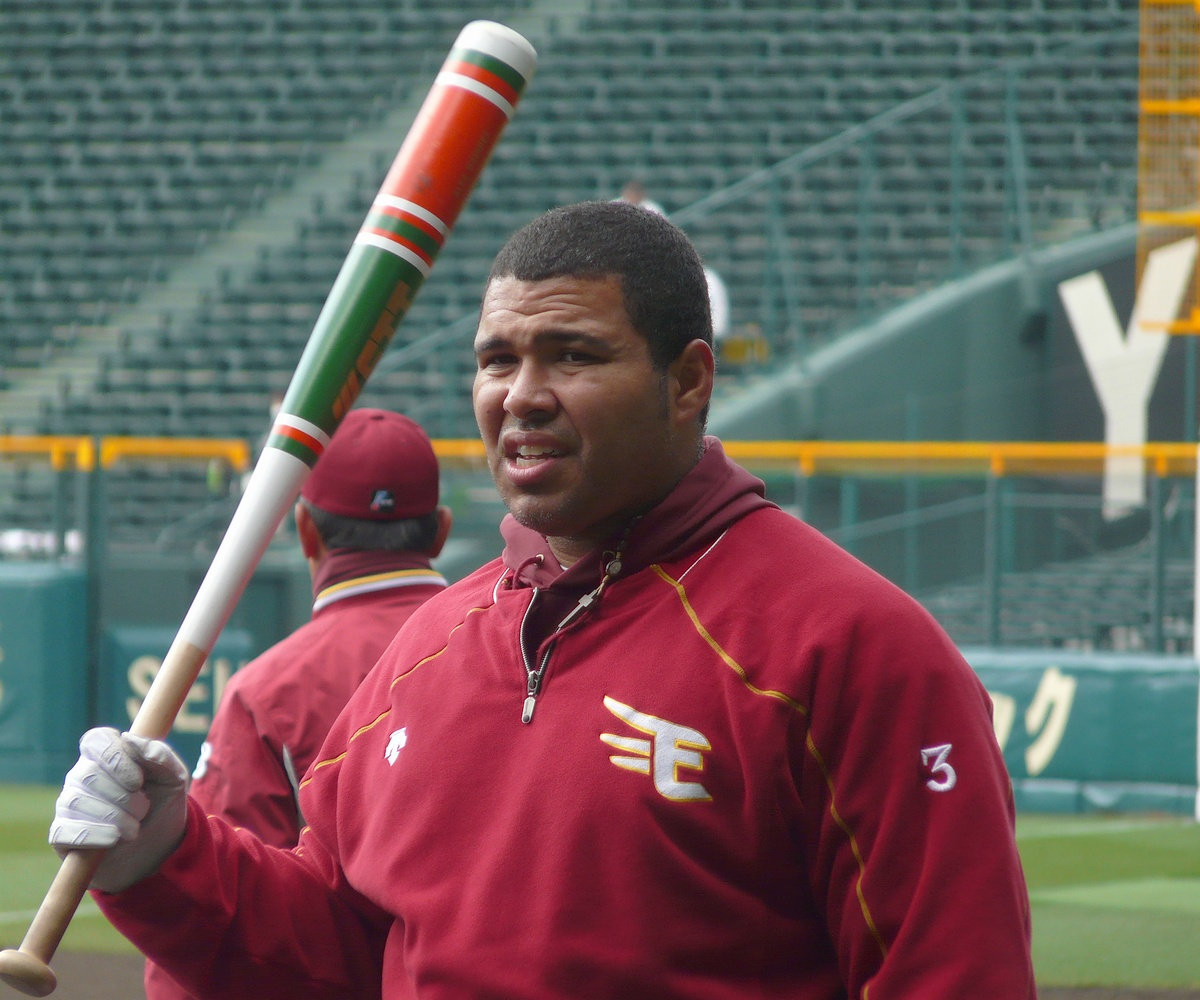 RE-Randy-Ruiz20110309